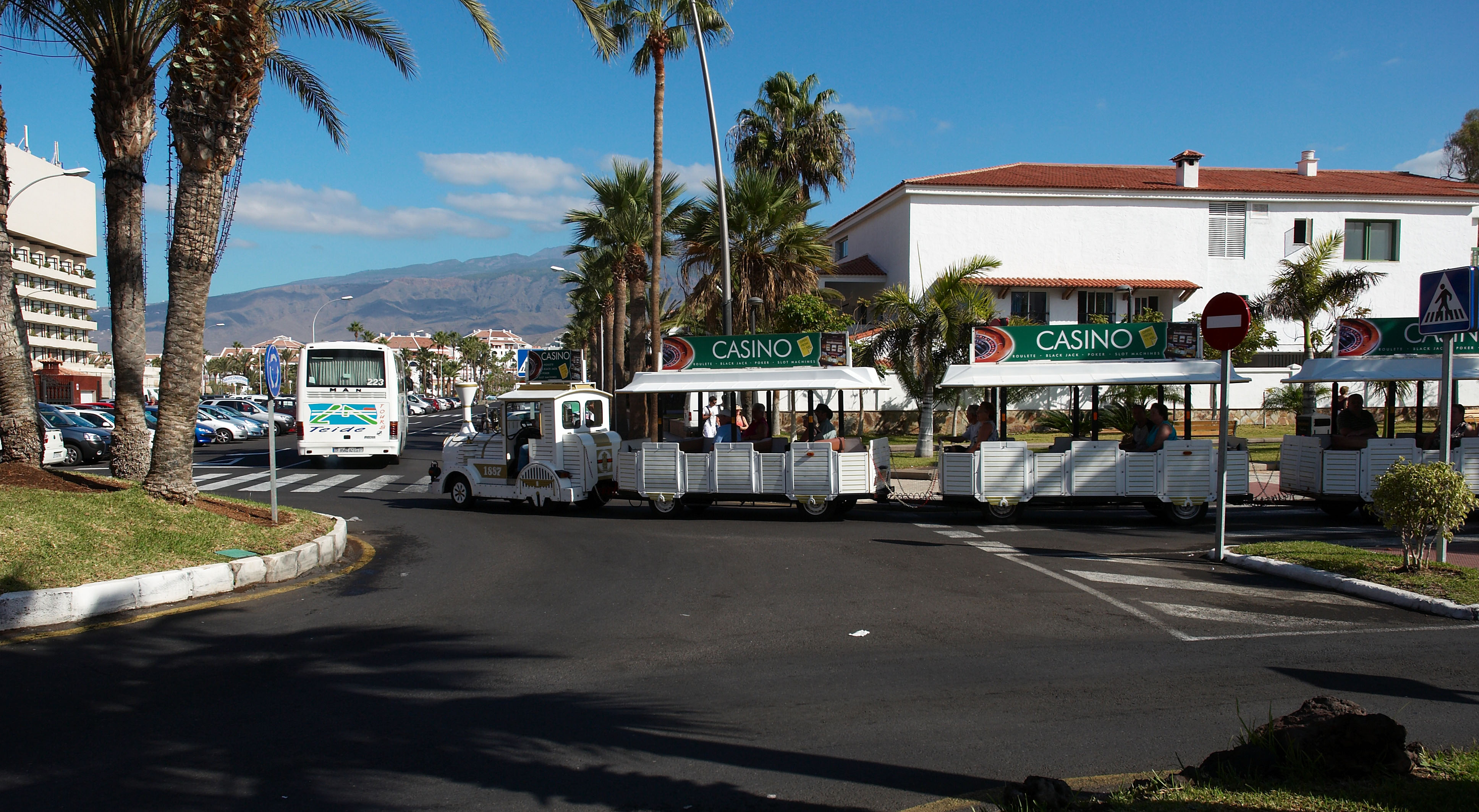 Trackless train with tourists in Playa de las Américas, Tenerife, Spain